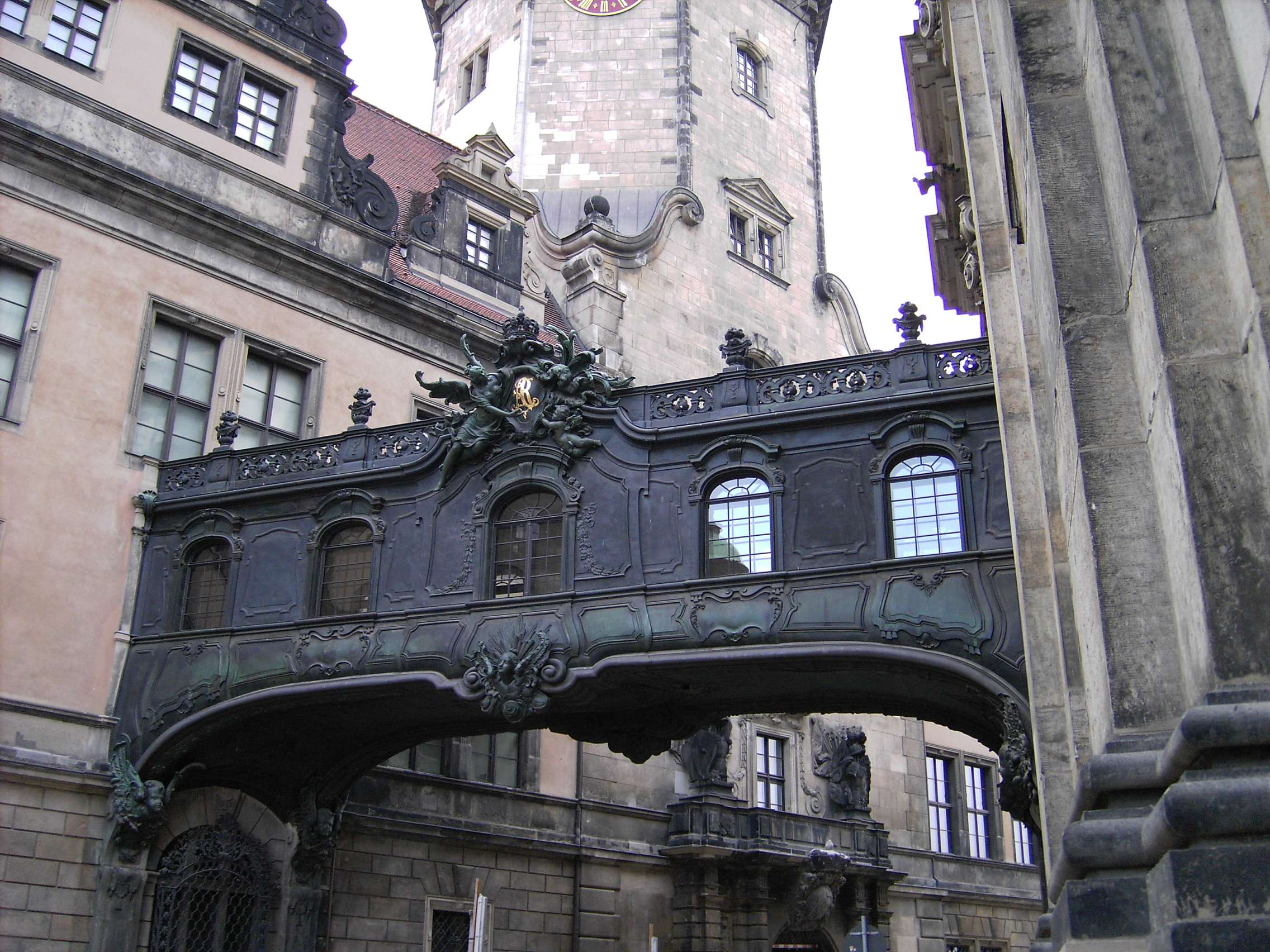 Dresden. Bridge connecting Hofkirche and Residenzschloss.